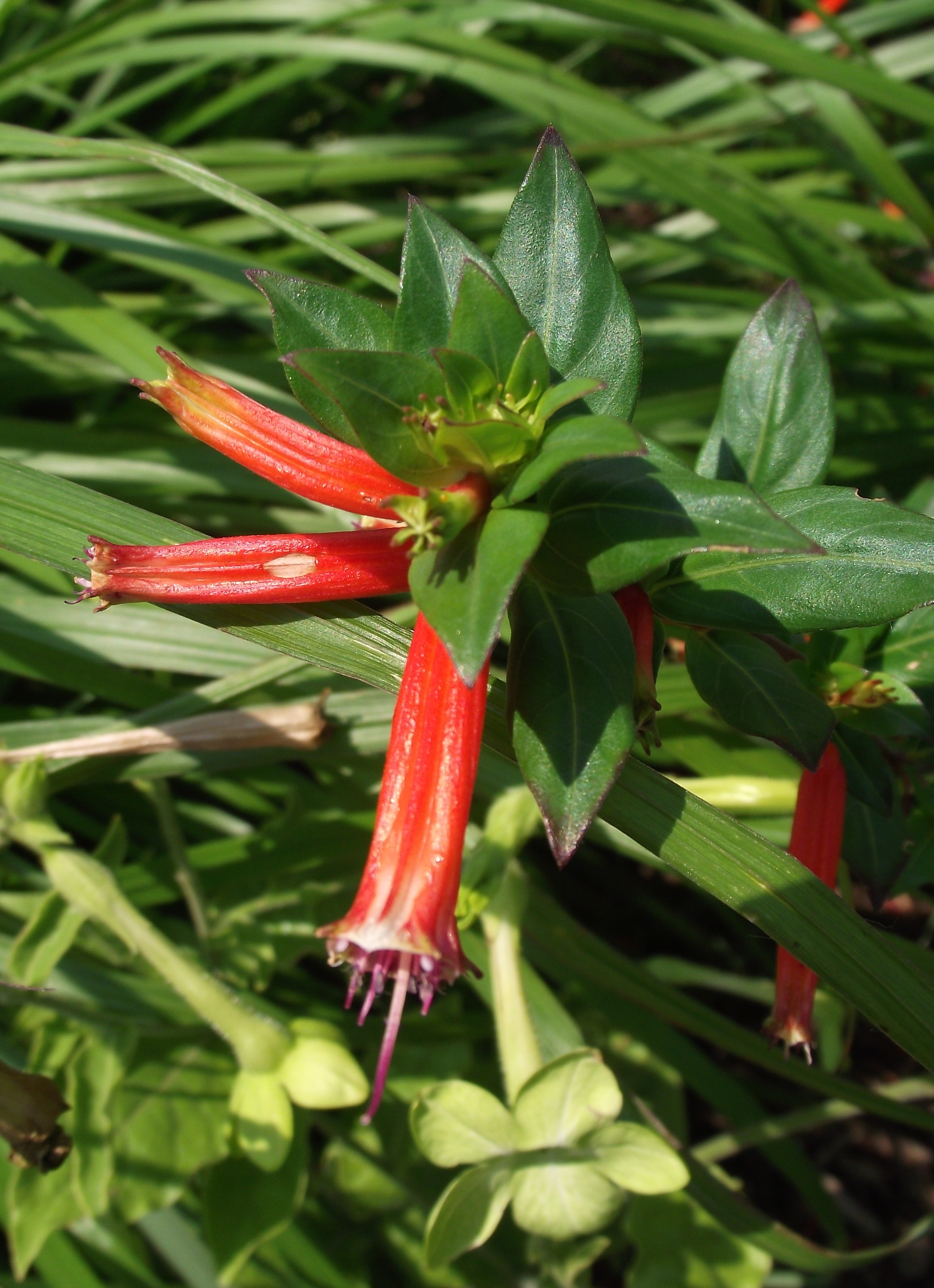 Cuphea micropetala at New York Botanical Garden, Bronx, NY, USA